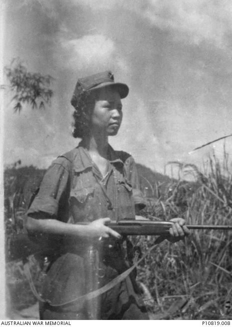 Outdoor portrait of Lee Min, leader of the communist Kepayang Gang in the Ipoh district in 1951.